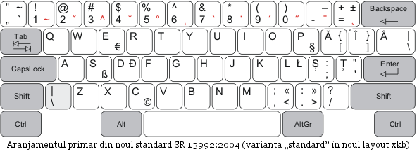 Primary Romanian keyboard layout, as described in the national Romanian standard SR 13392:2004 (